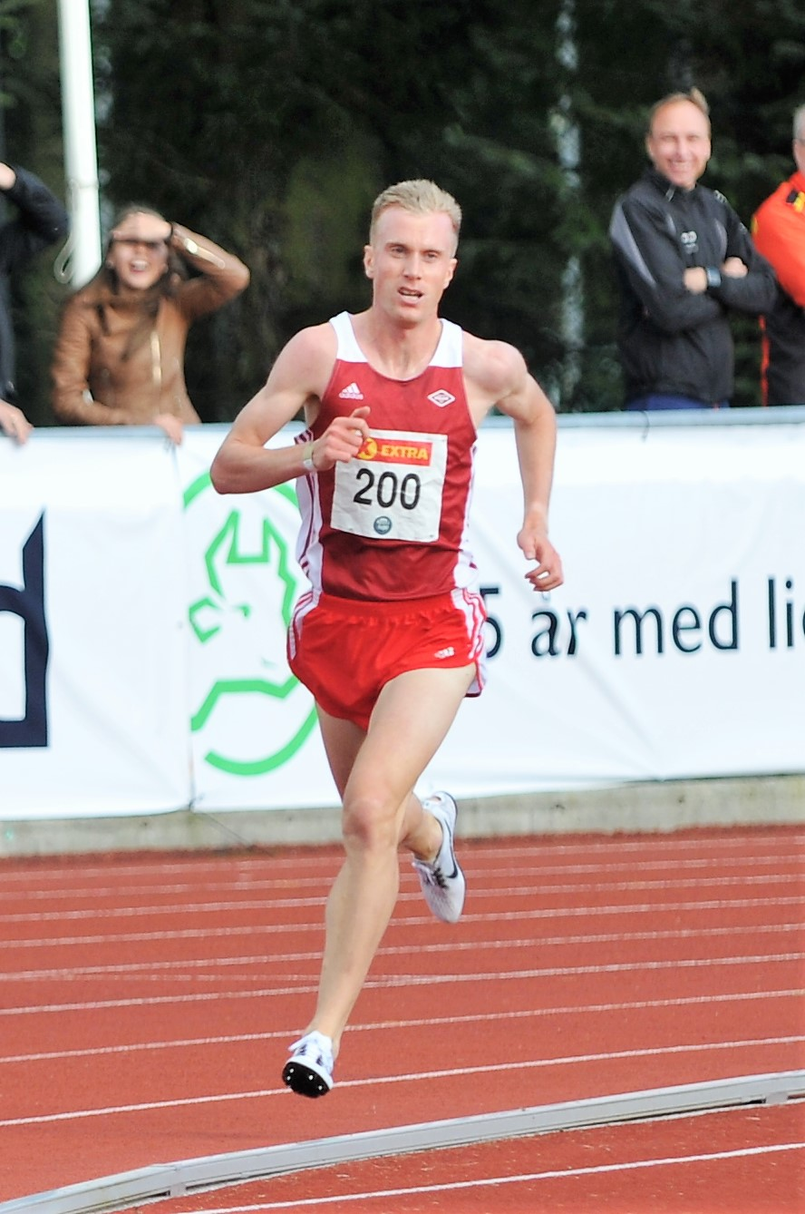 Sondre Nordstad Moen at the Norwegian Athletics Championships in Sandnes 2017.